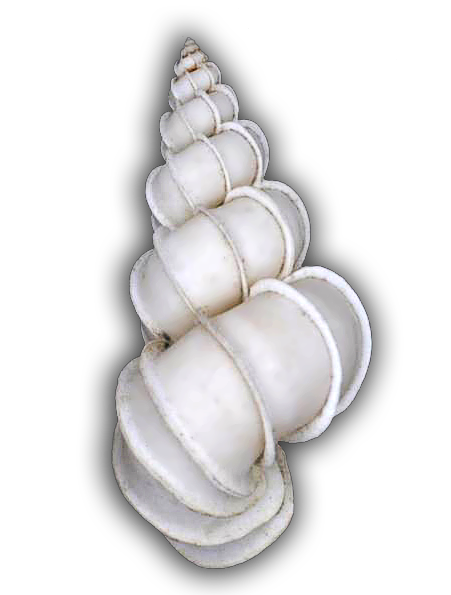 Precious Wentletrap - Epitonium scalare